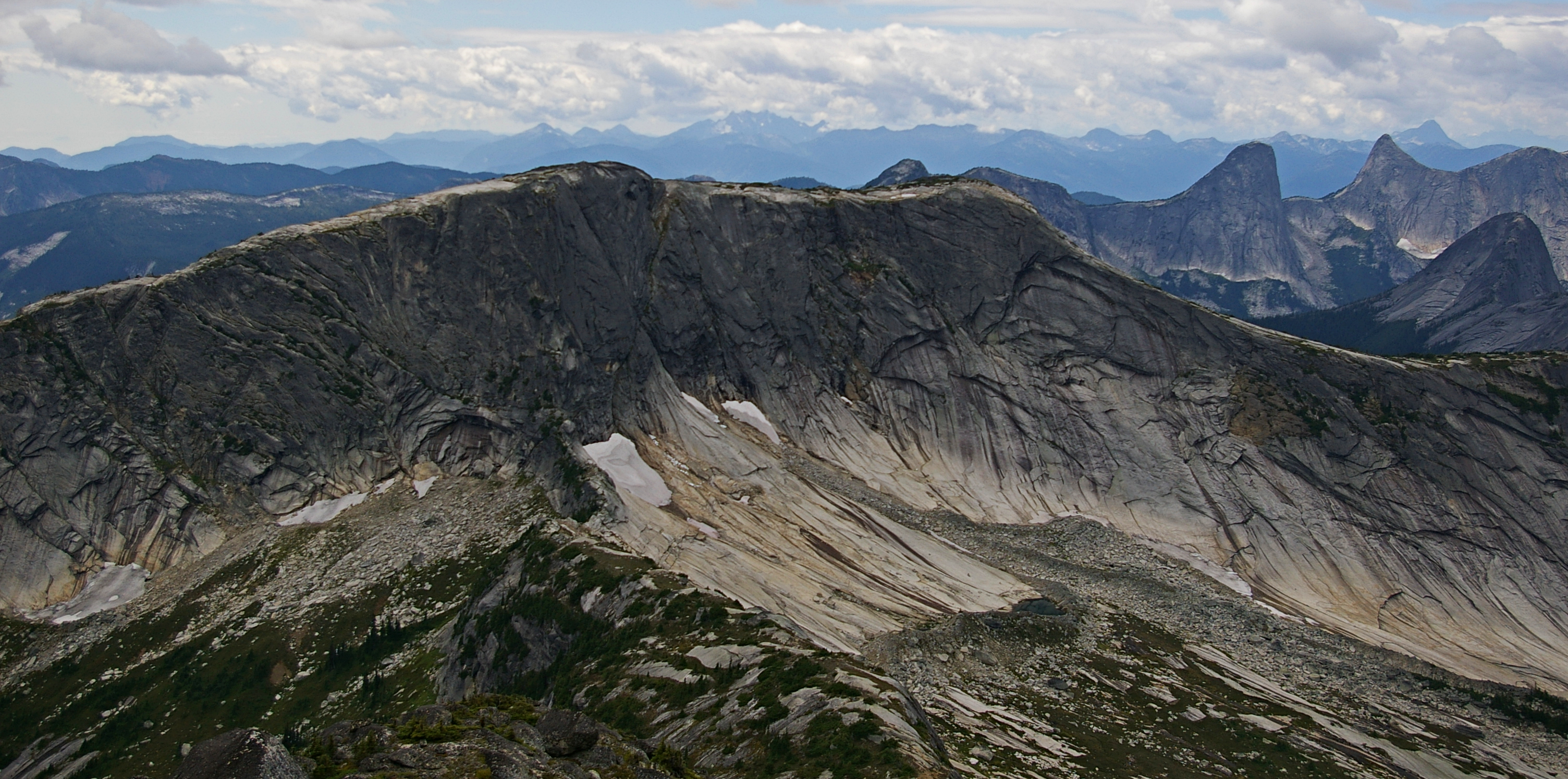 North face of Alpaca Peak in Canadian Cascades.